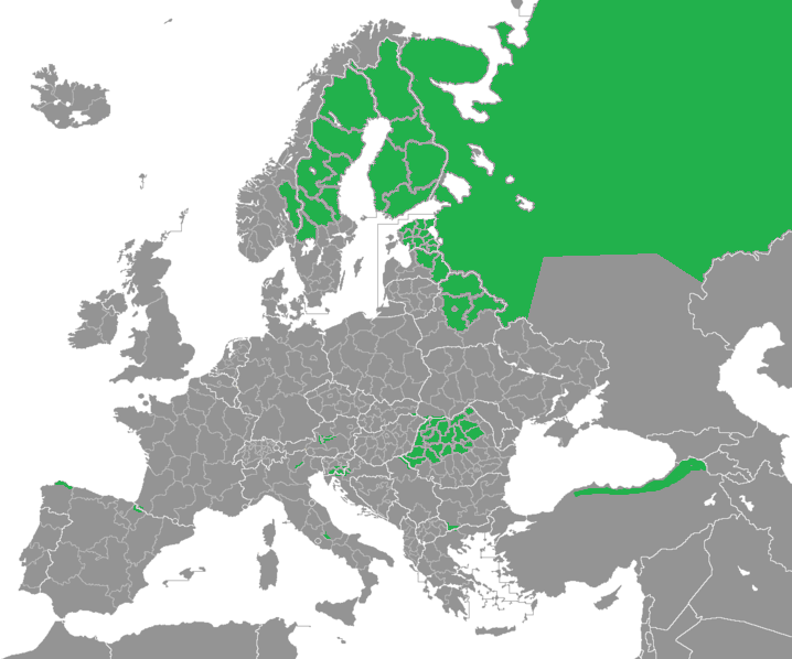 Range of Ursus arctos in Europe, based on map by IUCN.